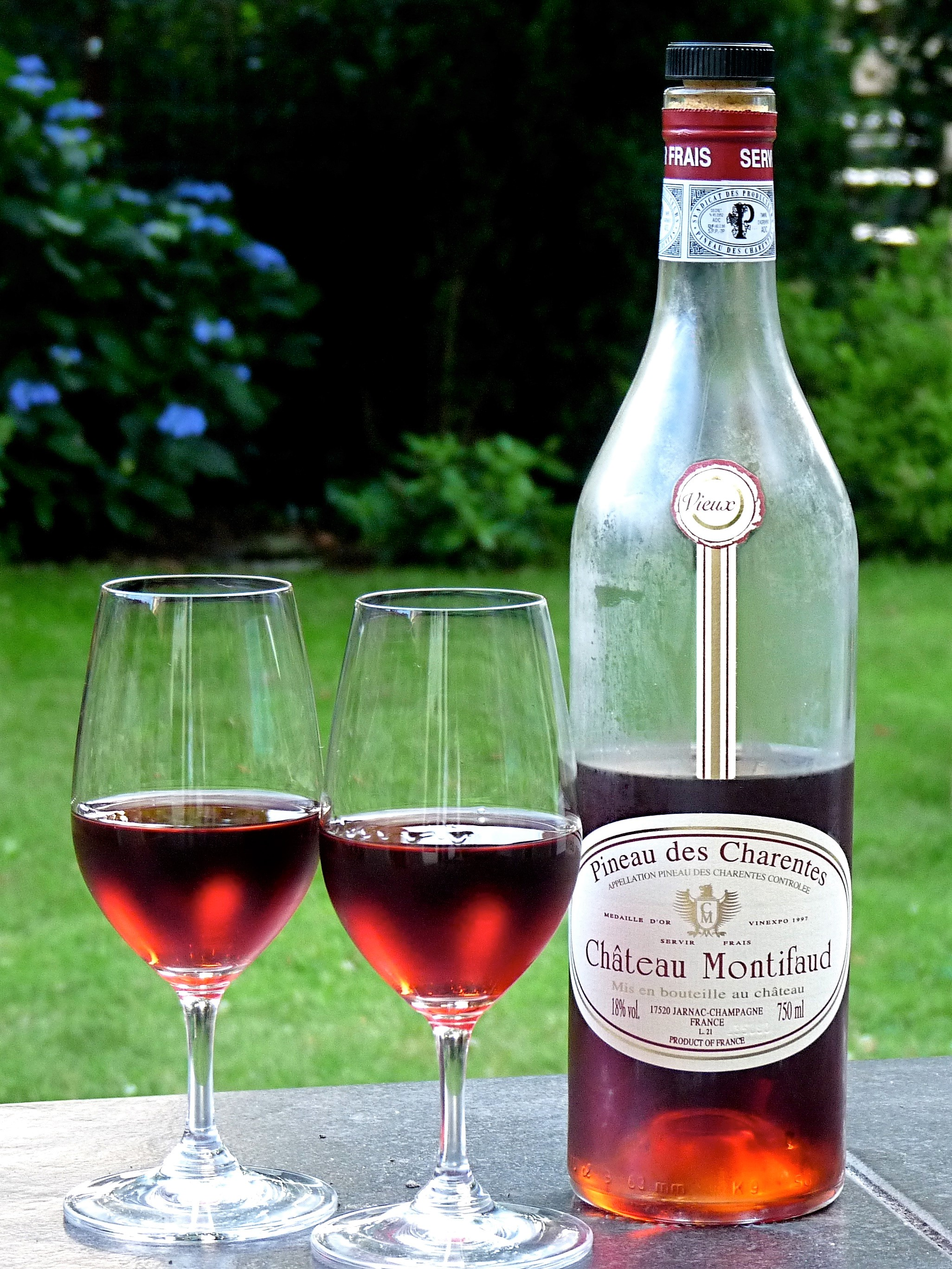 Pineau des Charentes Vieux